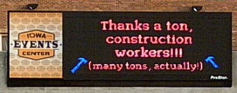 Iowa Events Center marquee, looking south along 3rd Street at Vets Auditorium. This was photographed by User:Iowahwyman on July 12, en:2005.